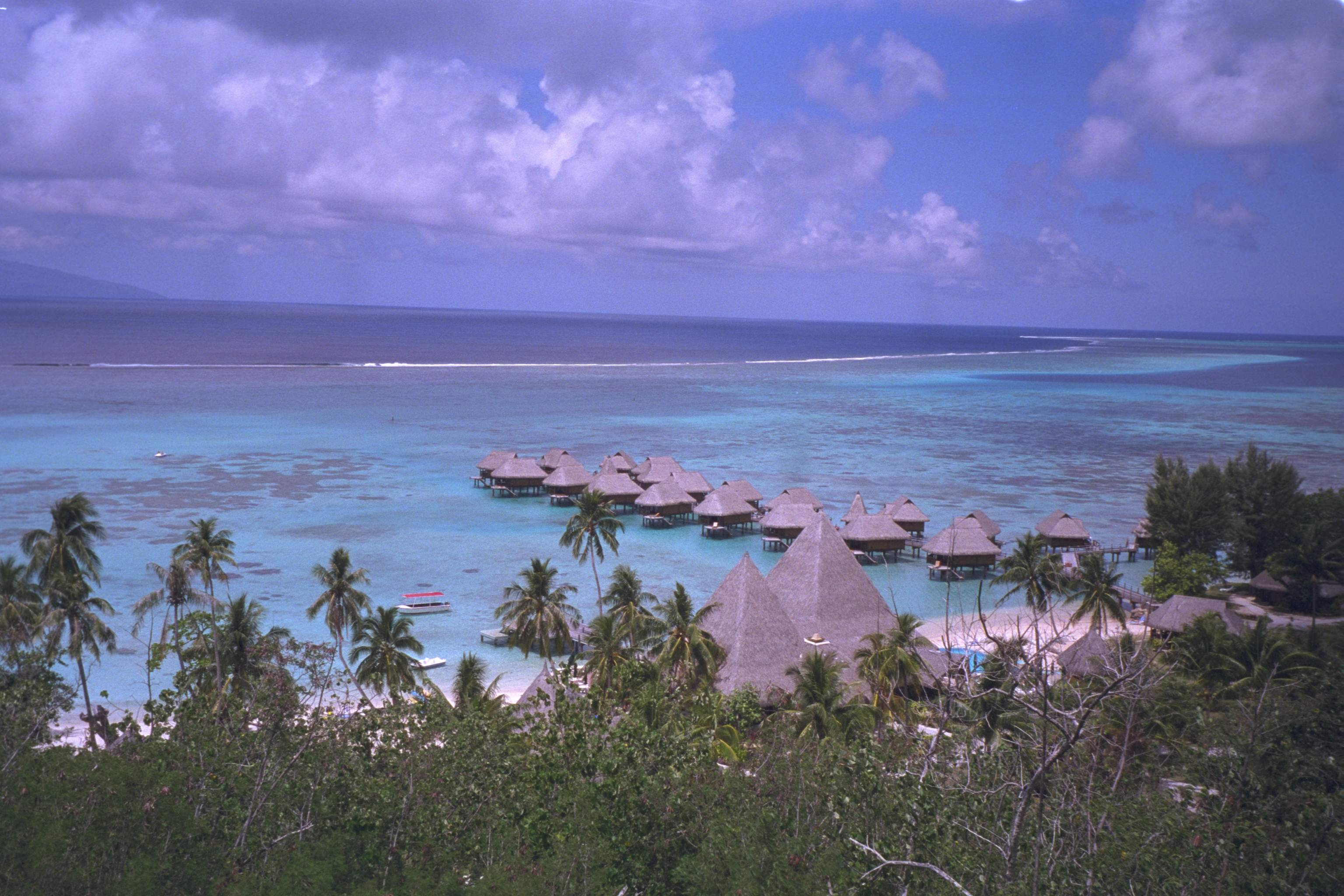 Moorea East Coast